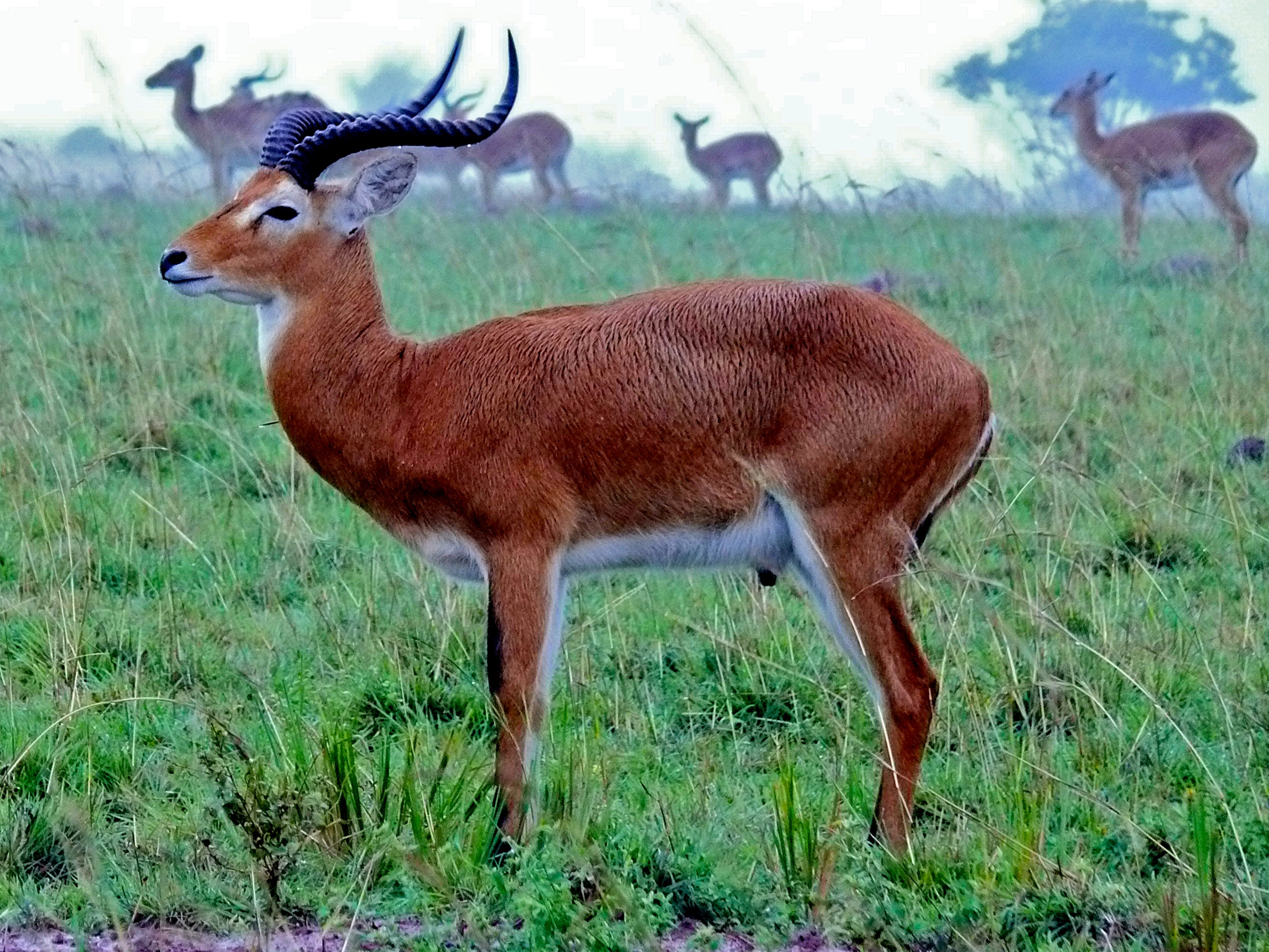 Murchison's Falls NP, UGANDA